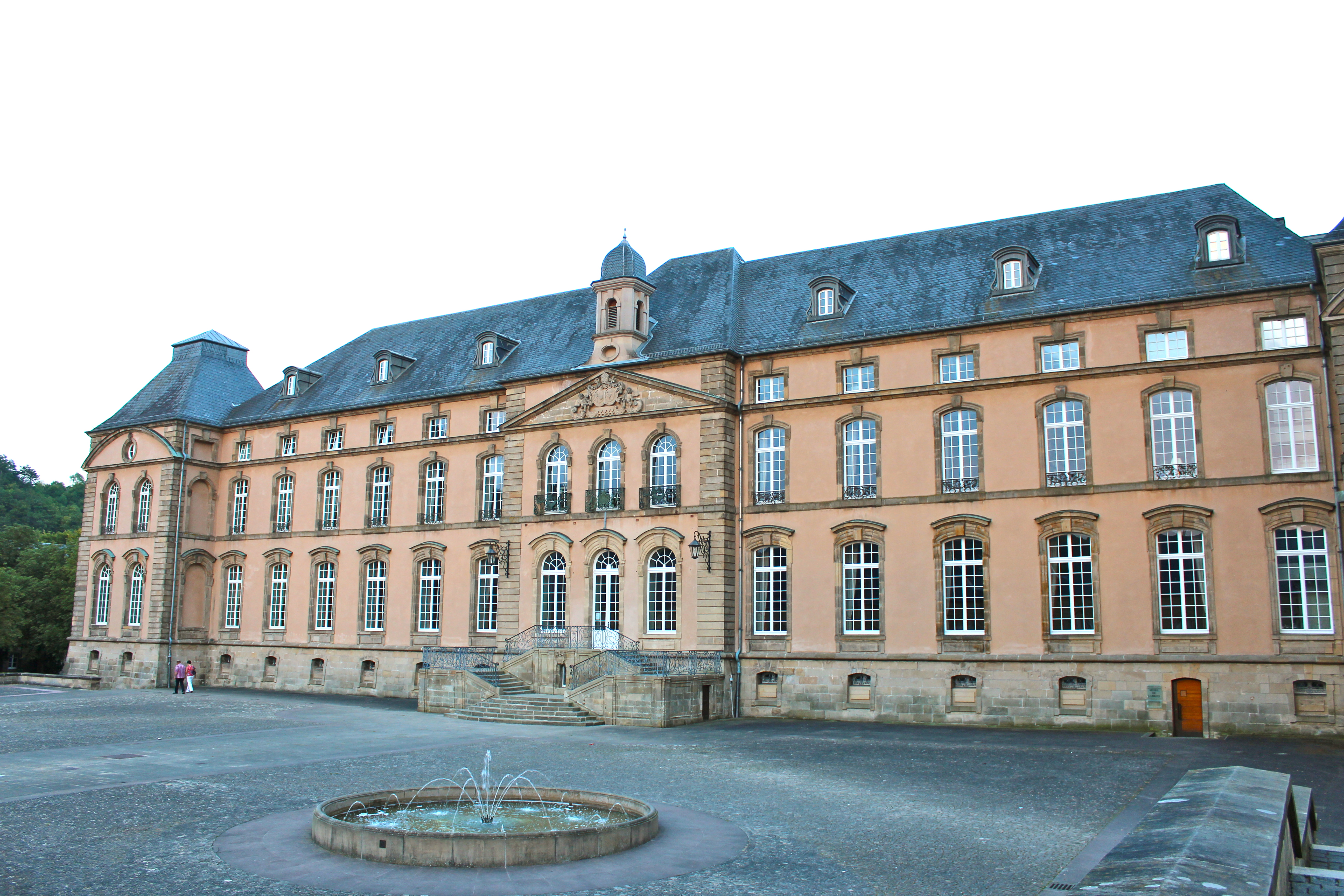 Buildings of former Echternach Abbey: Lycée classique Echternach.